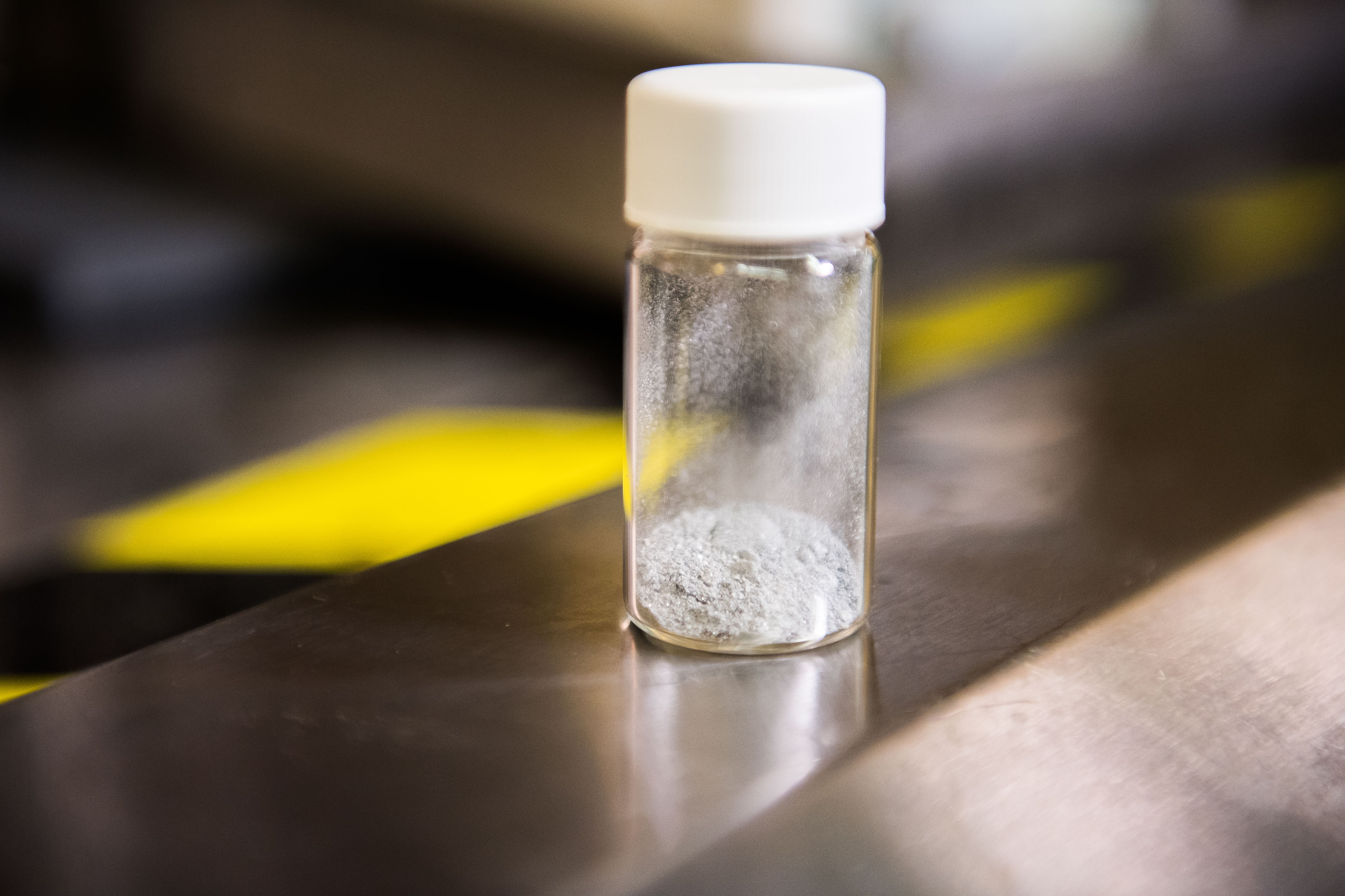 A glass vial containing a nano-galvanic aluminum-based powder developed by scientists at the U.S. Army Research Laboratory. The powder produces hydrogen when added to water or any liquid containing water